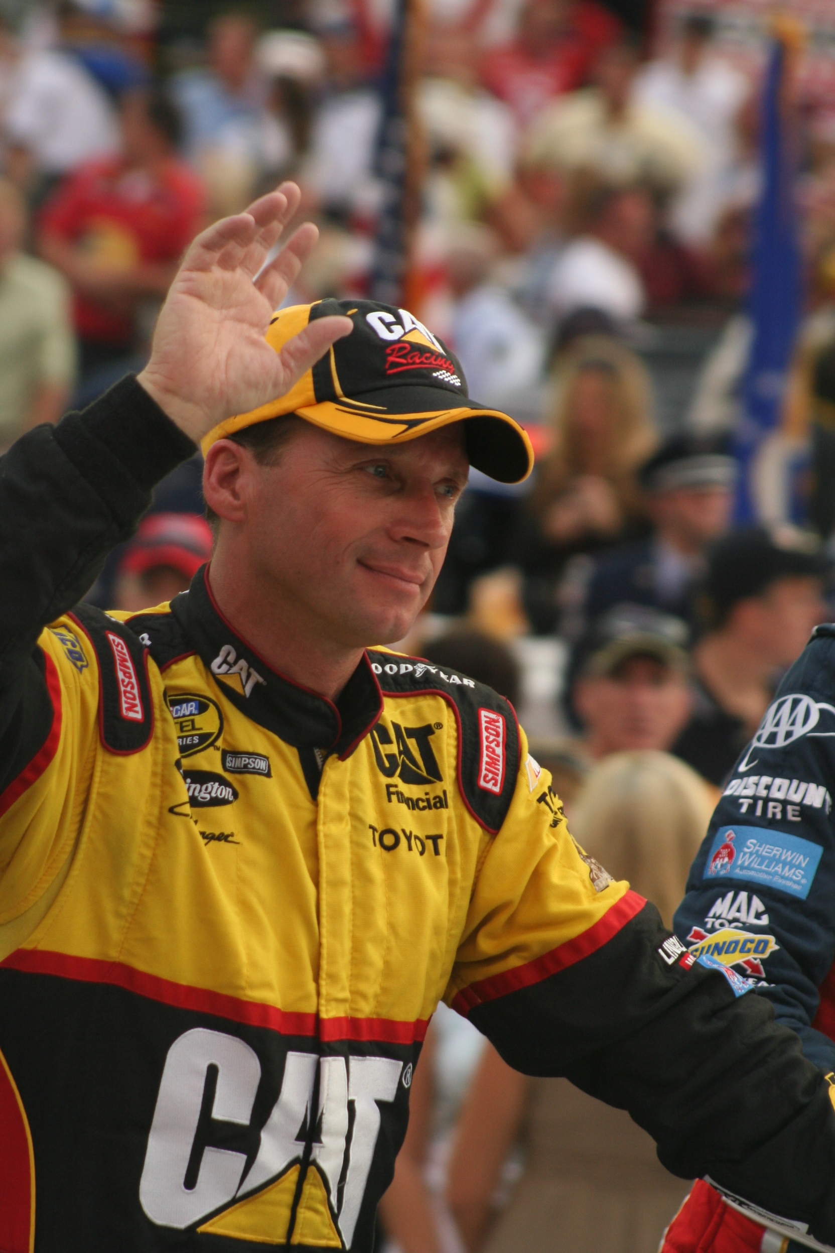 NASCAR driver Dave Blaney at Bristol Motor Speedway in August 2007Dave Blaney